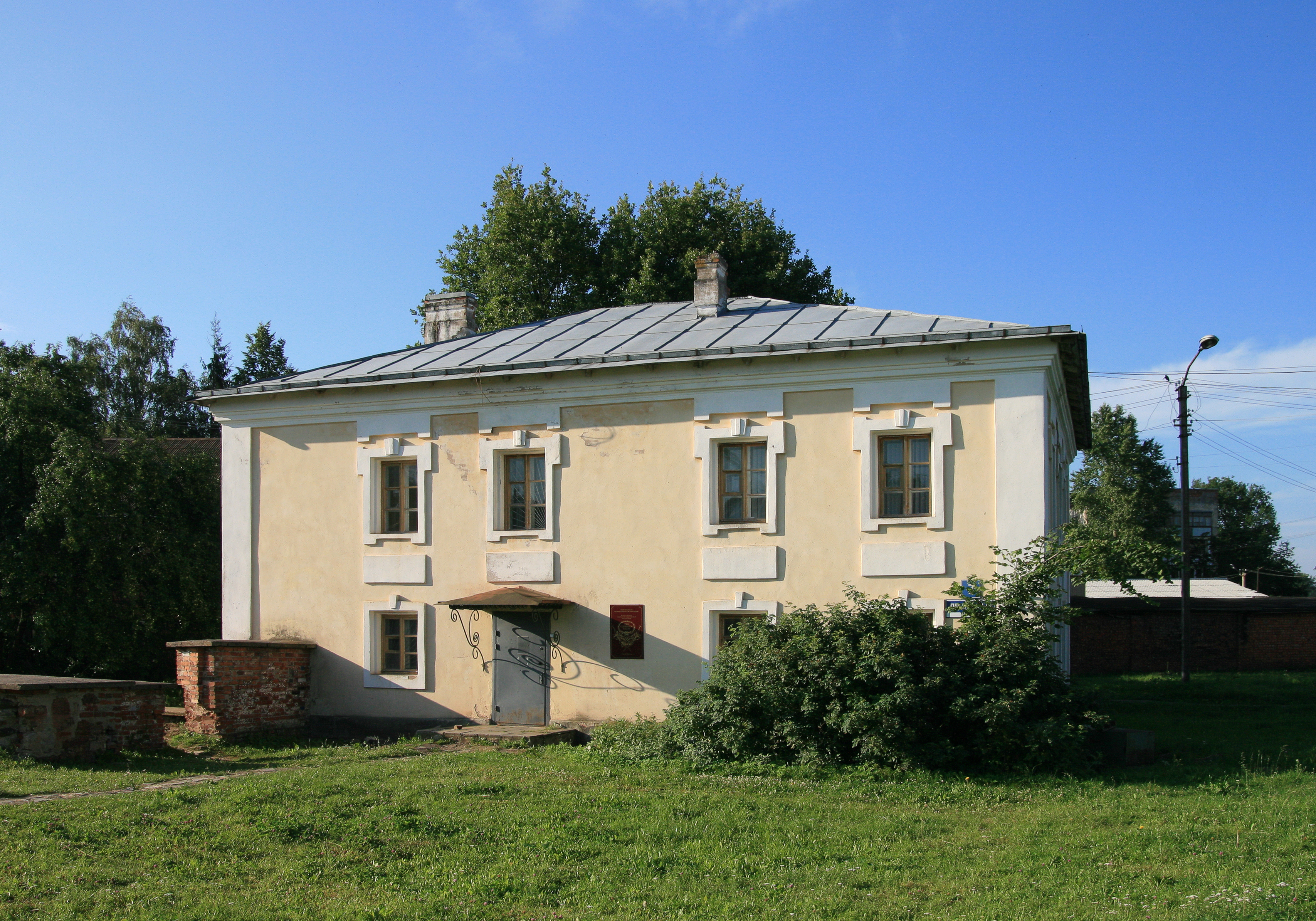 Abbot house of Desyatinny monastery, Veliky Novgorod